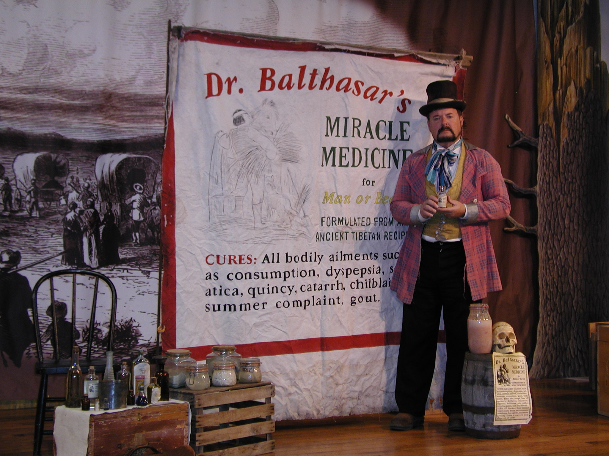 Oregon Trail ruts carved by pioneer wagons are located onsite and are featured in a four mile interpretive hiking trail system. Trails and picnic areas offer scenic vistas of the Blue Mountains, the Wallowa Mountains, and Baker Valley.